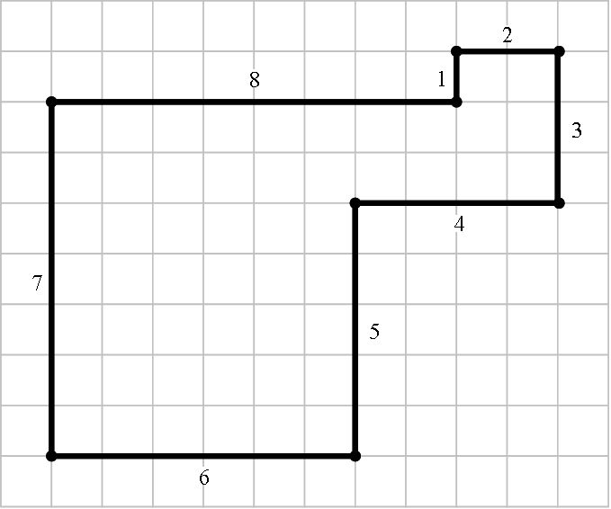 Golygon created in Microsoft Word.